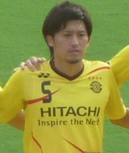 Tatsuya Masushima from Kashiwa Reysol